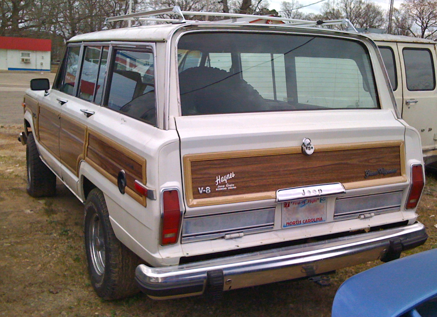 Jeep (SJ) Grand Cherokee - view of rear tailgate